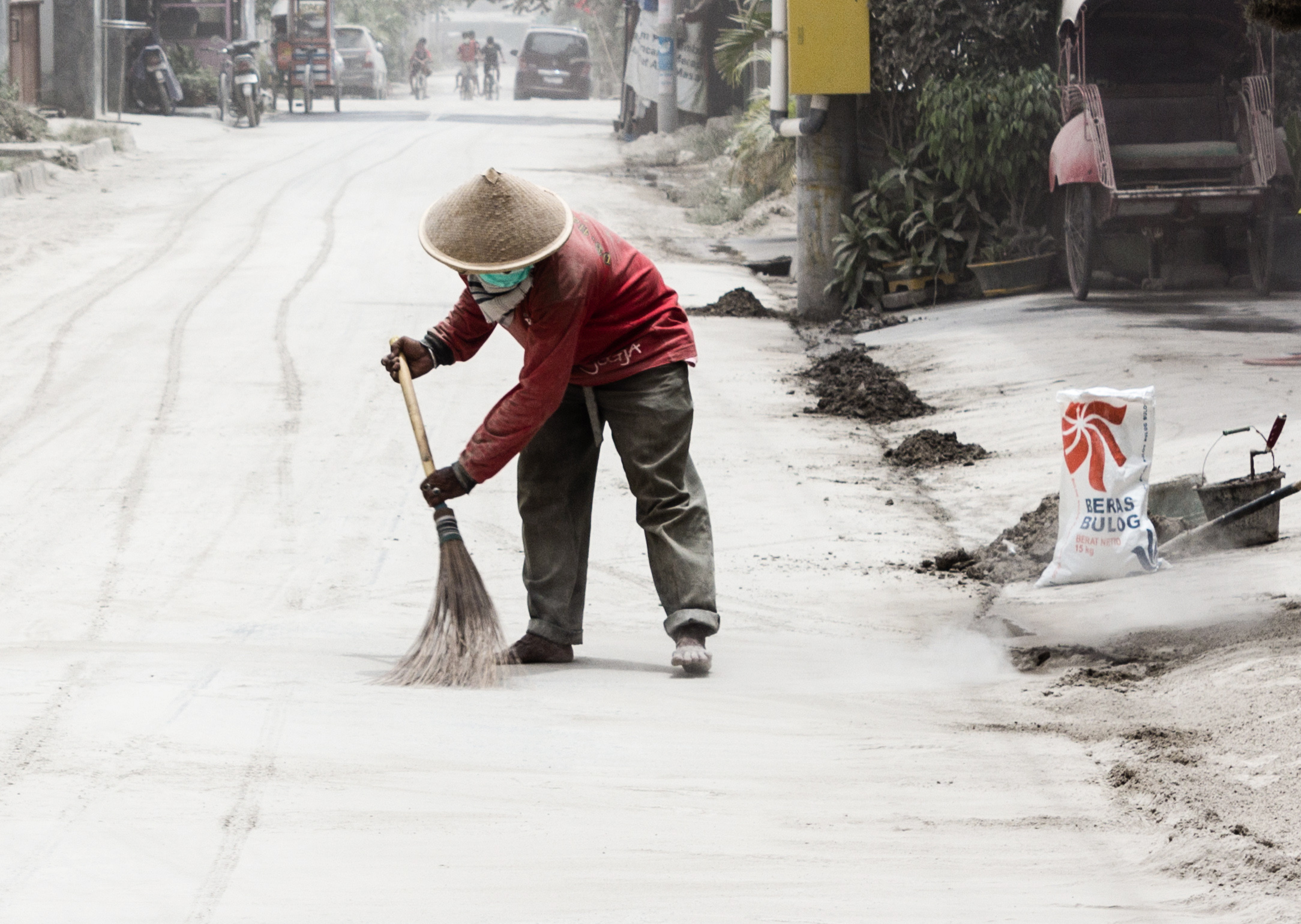 A man sweeping ash from the road during the 2014 eruption of Kelud